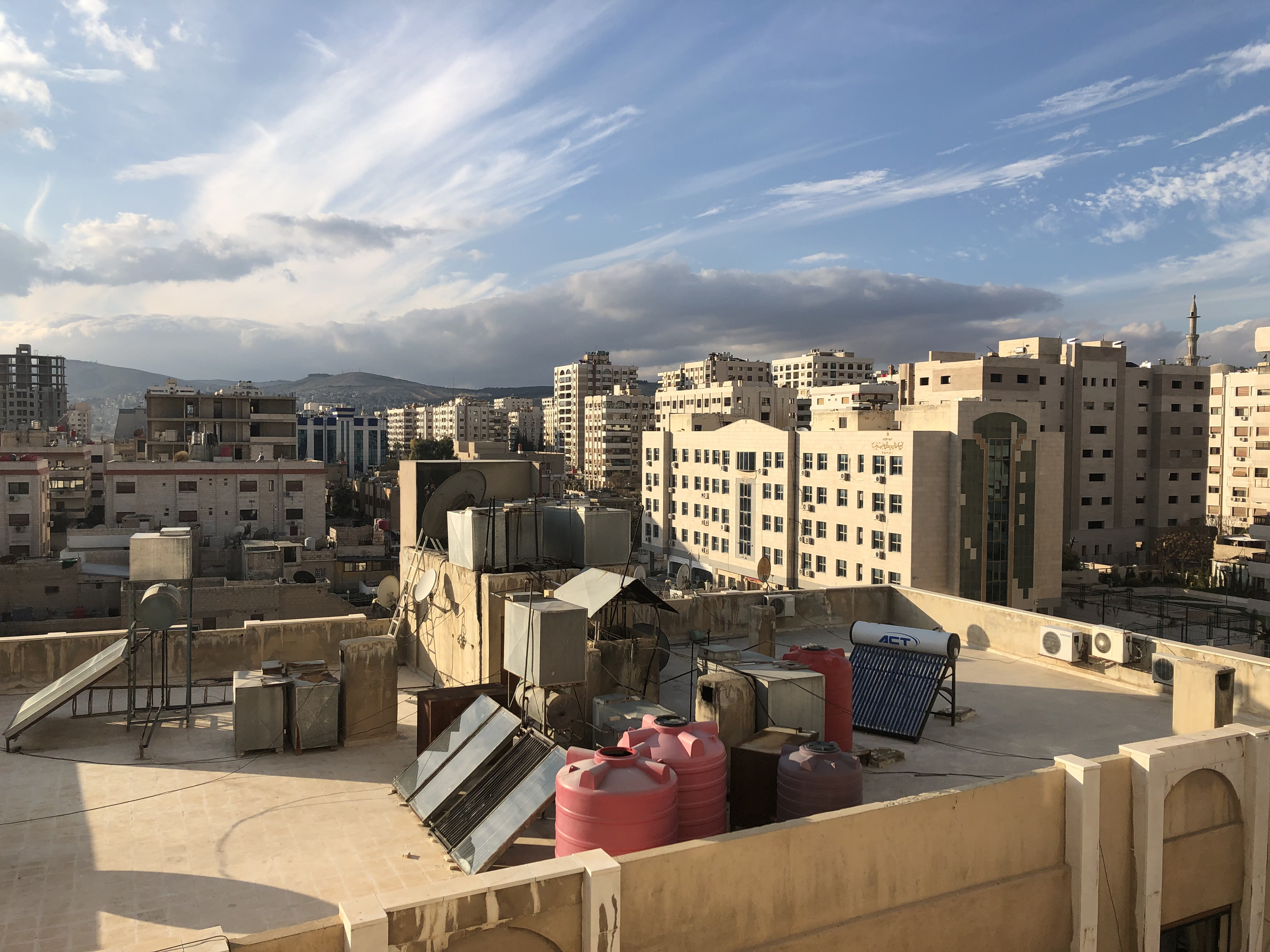 Kafarsouseh Skyline